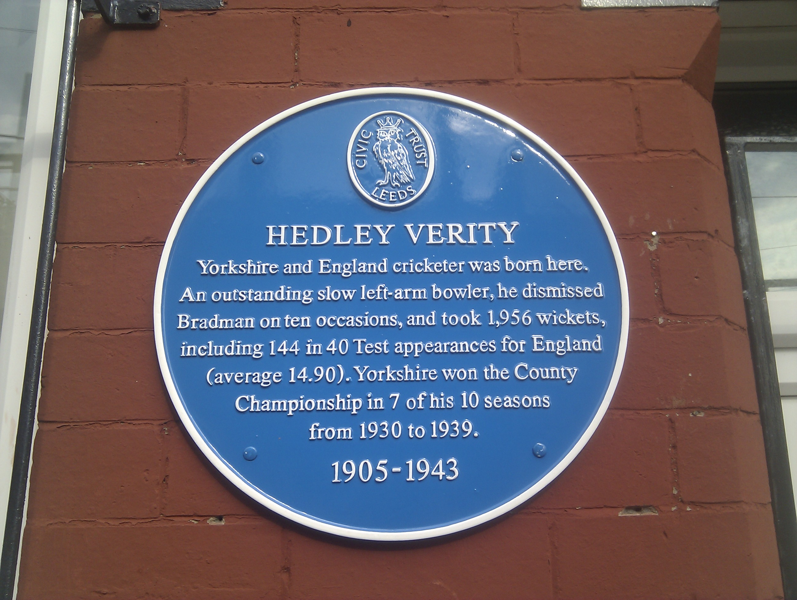 HEDLEY VERITY Yorkshire and England cricketer was born here. An outstanding slow left-arm bowler, he dismissed Bradman on ten occasions, and took 1,956 wickets, including 144 in 40 Test appearances for England (average 14.90). Yorkshire won the County Championship in 7 of his 10 seasons from 1930 to 1939. 1905-1943